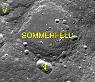 Clementine image is used for the presentation